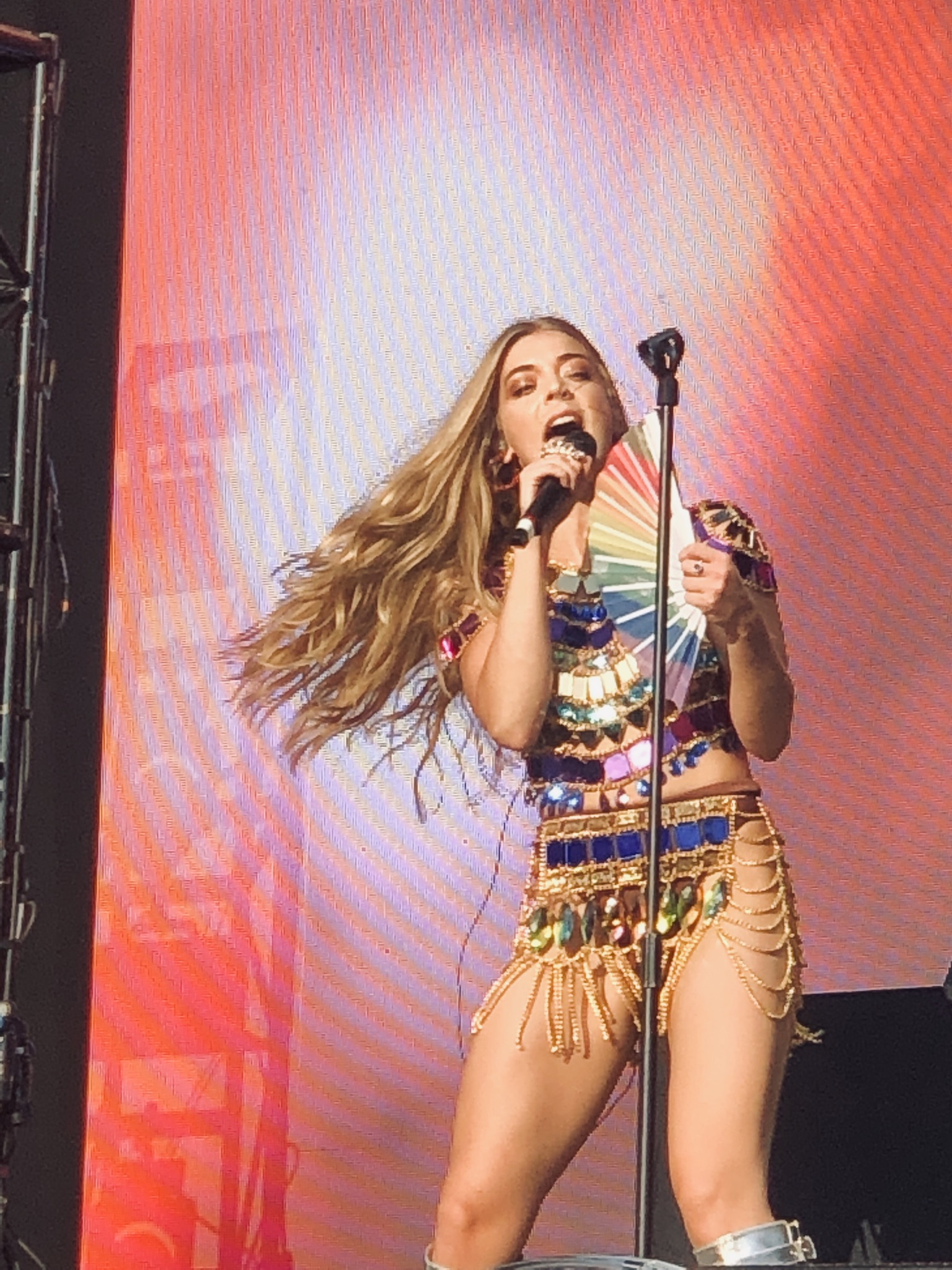 Beck Hill performing at Manchester Pride Festival 2019